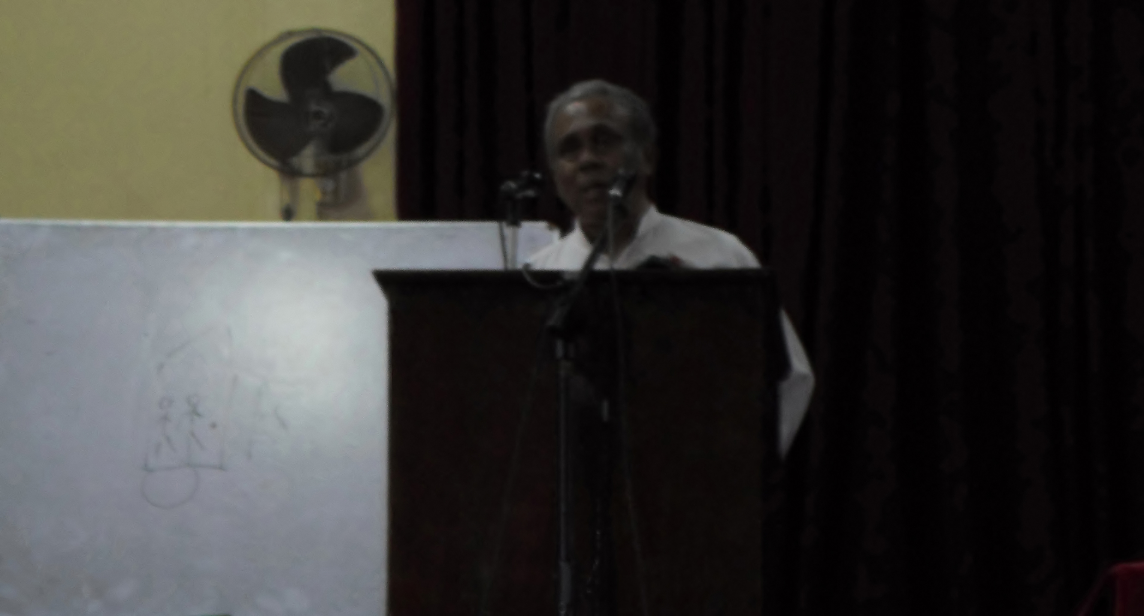 Photograph of Professor Nalin de Silva.